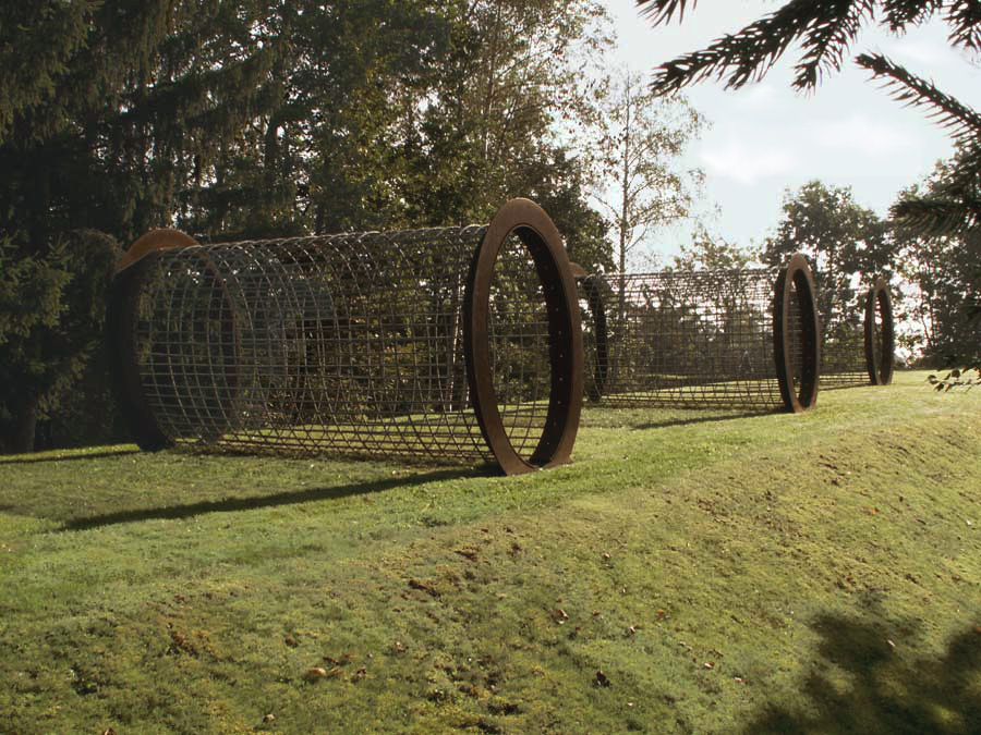 Österreichischer Skulpturenpark, Susana Solano, A juste en el Vacio (Adjustment to the vacuum), 1995/96